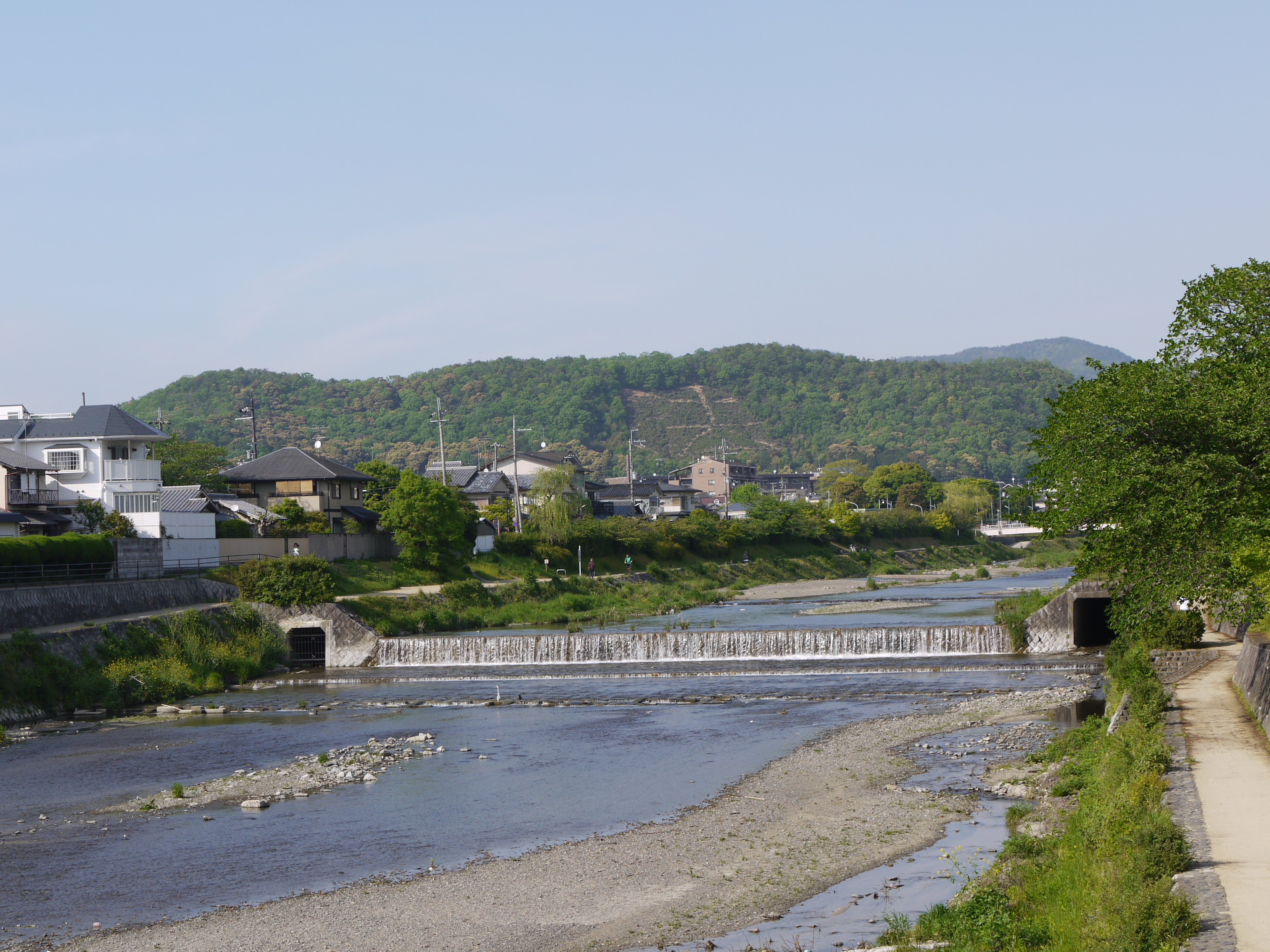 法(Hou) from Takanobashi bridge